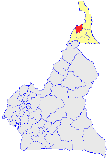 Mayo-Sava Departement in Province de l'Extreme-Nord (Cameroon)